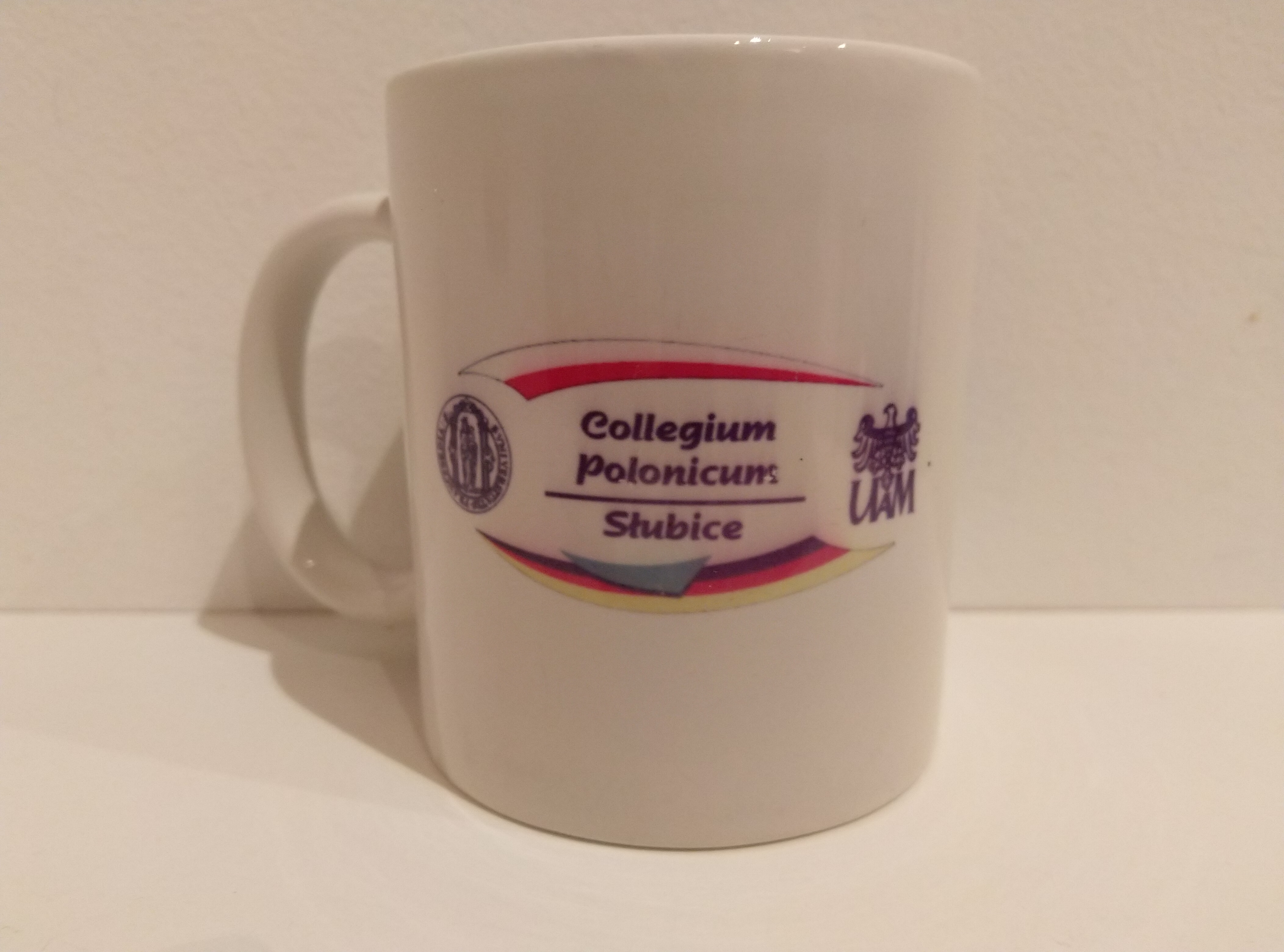 Coffee cup of 2007 promoting Collegium Polonicum